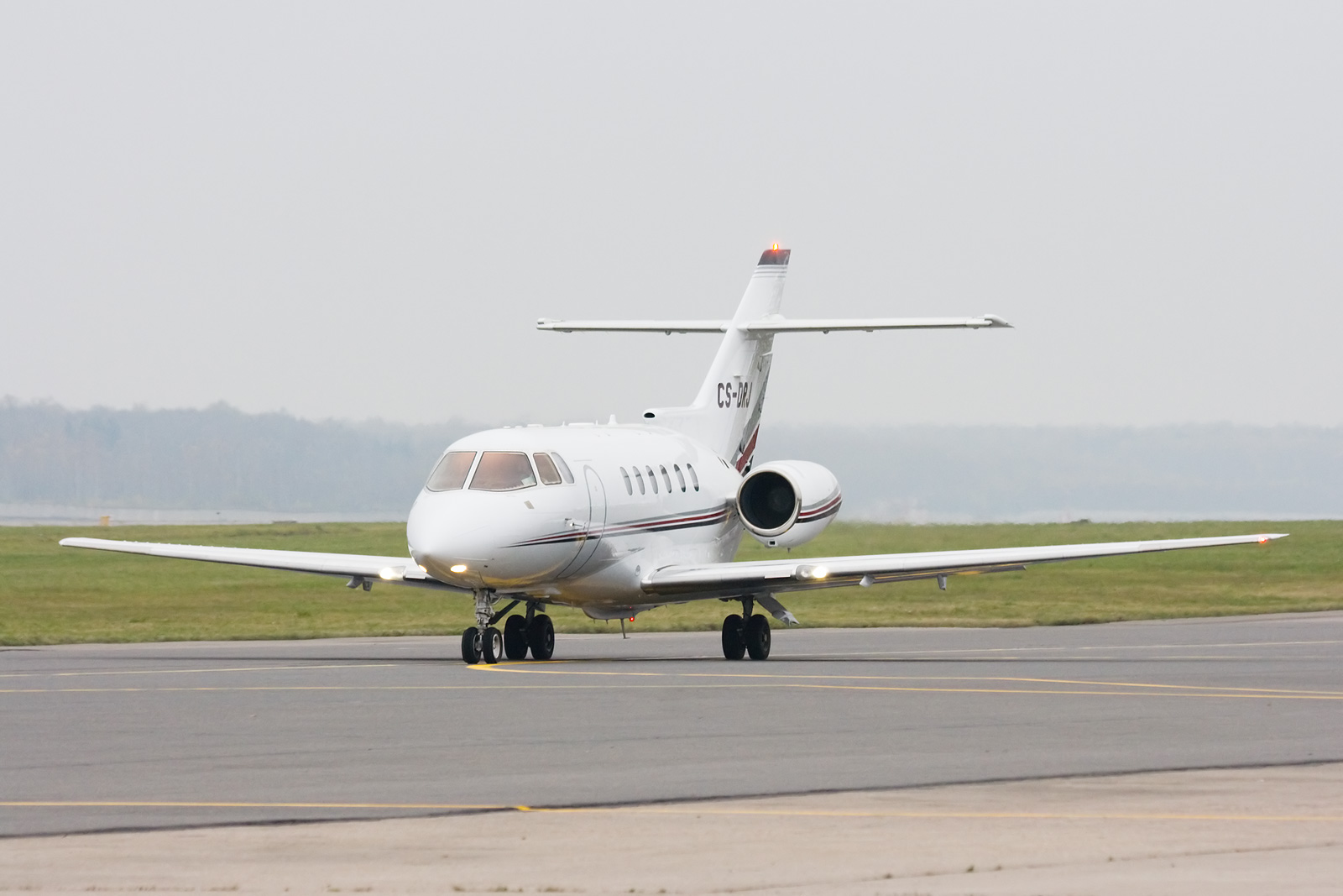 Raytheon Hawker 800XP